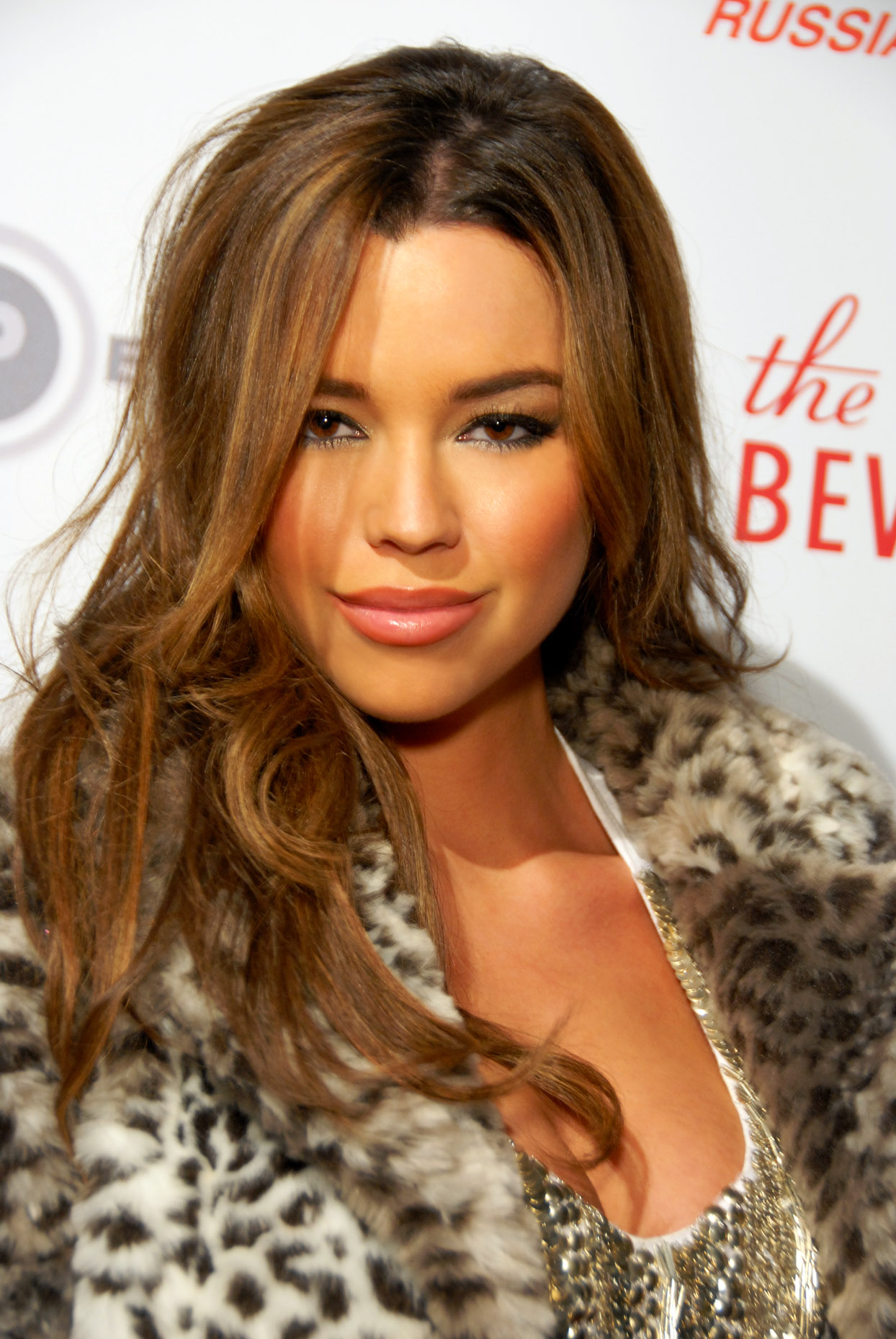 Brittany Binger attending the "Babes In Toyland" Holiday Toy Drive at Bar 210, Beverly Hills, CA on December 3, 2010 - Photo by Glenn Francis at